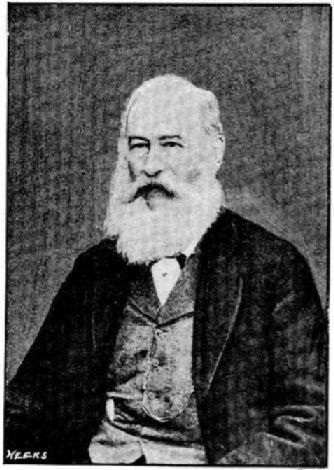 Portrait of Hugh Murray-Aynsley